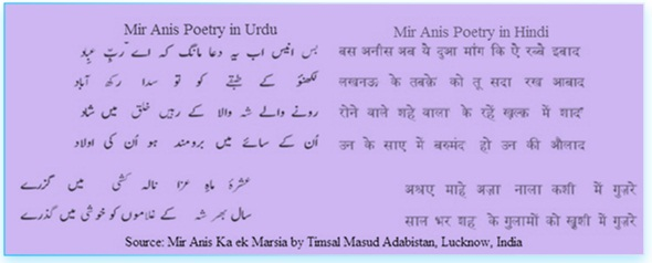 This is calligraphic presentation of some portion of stanzas from the poetry of Mir Anis, Urdu Language Poet of Mughal Era